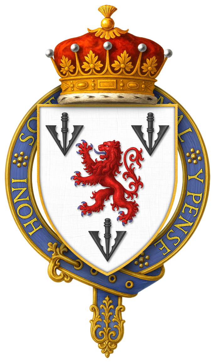 Shield of arms of Francis Egerton, 1st Earl of Ellesmere, KG, PC